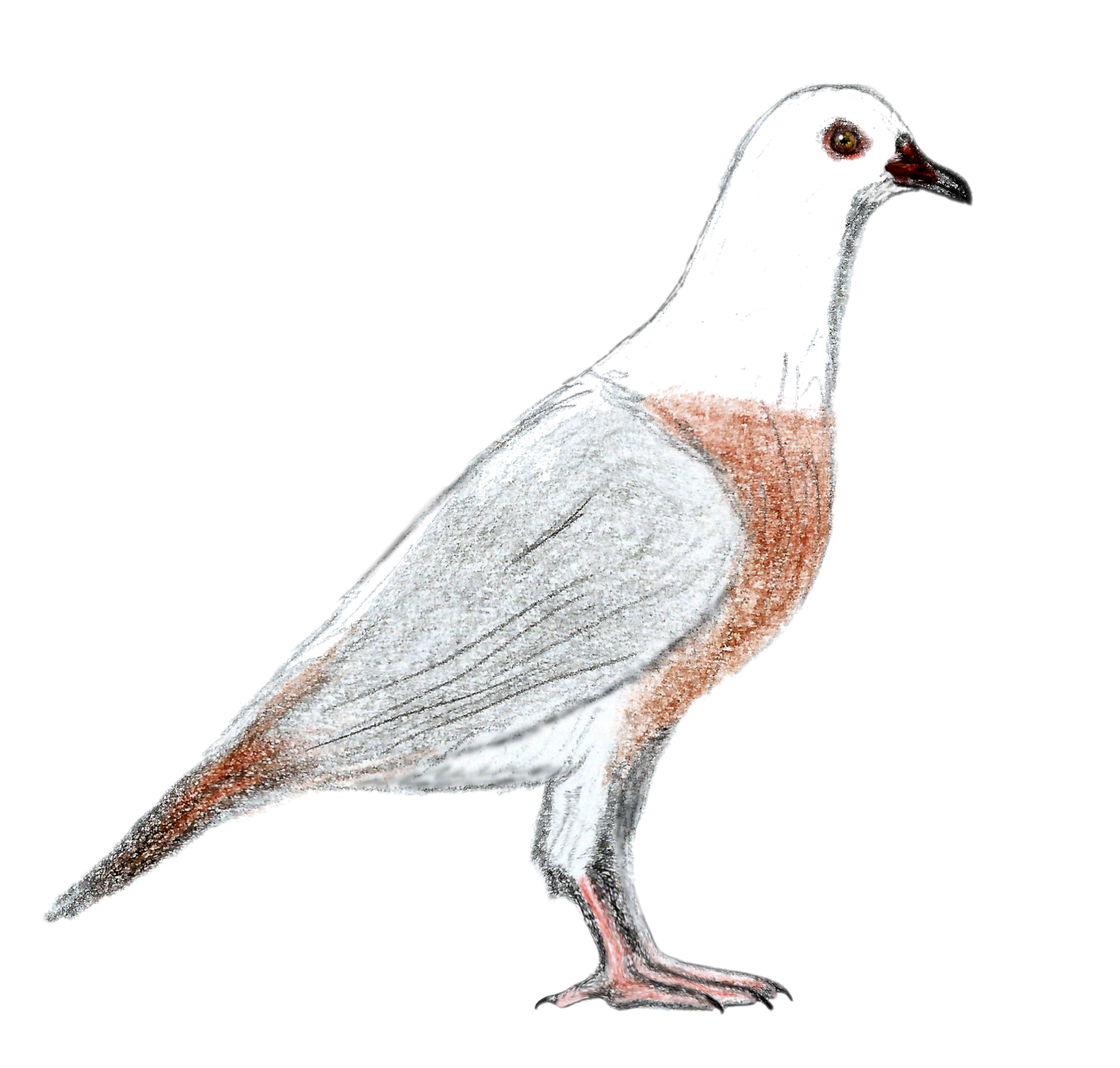 Recreación de una Paloma de Santa Elena (Dysmoropelia dekarchiskos)